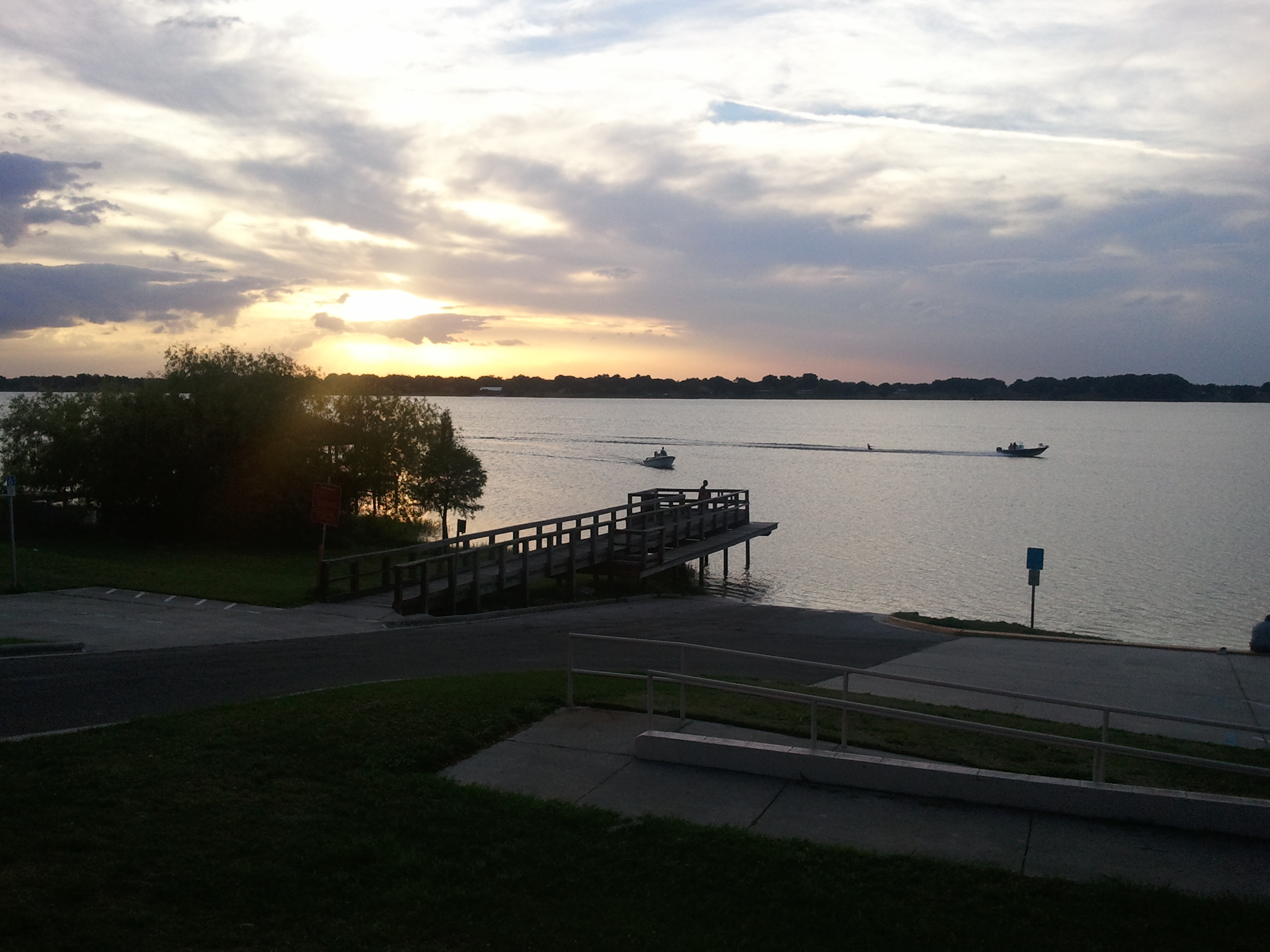 Overlooking the City of Eagle Lake Dock and Recreational Facility at Eagle Lake, FL.